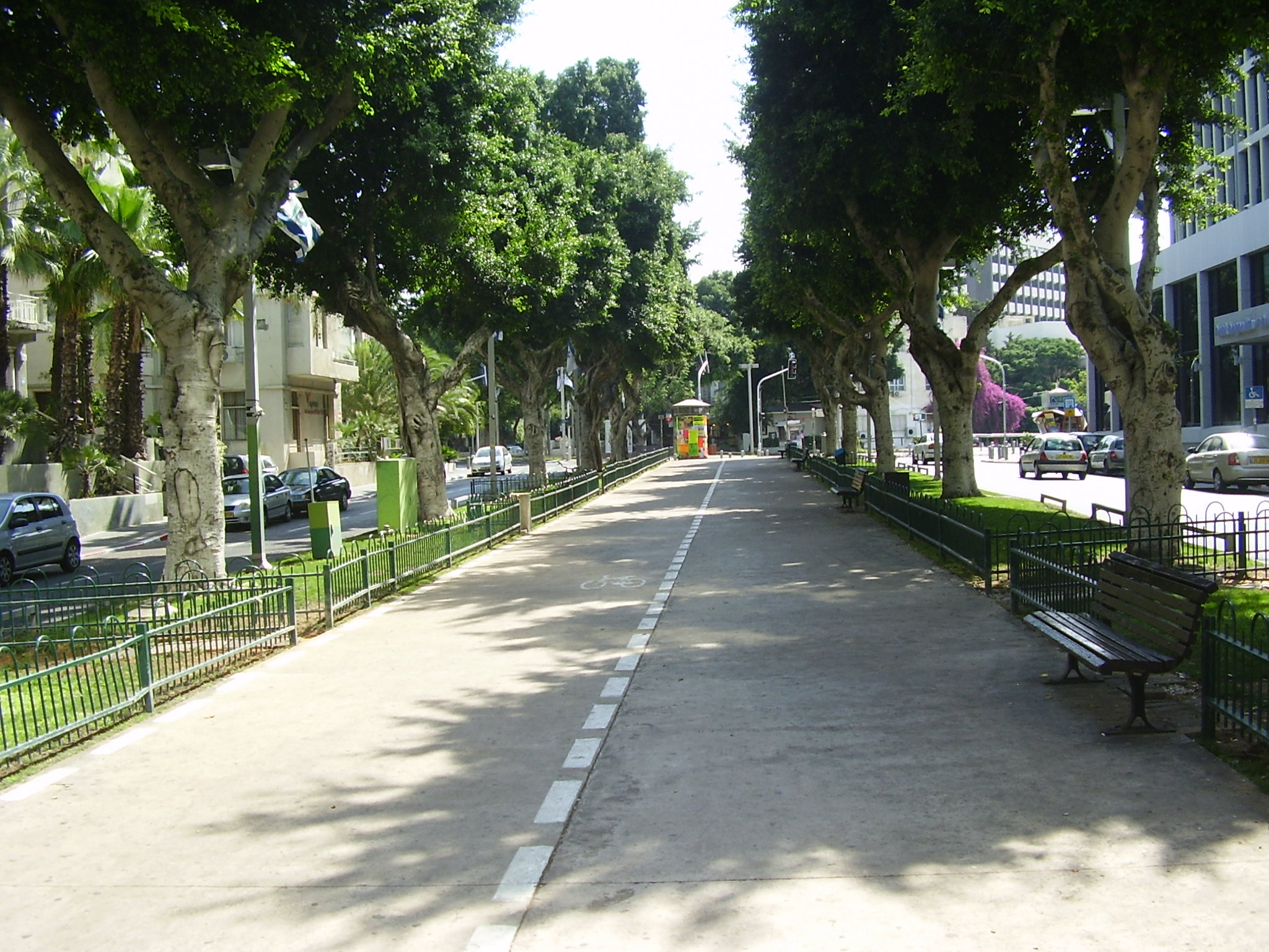 rotshild blvd. in tel-aviv